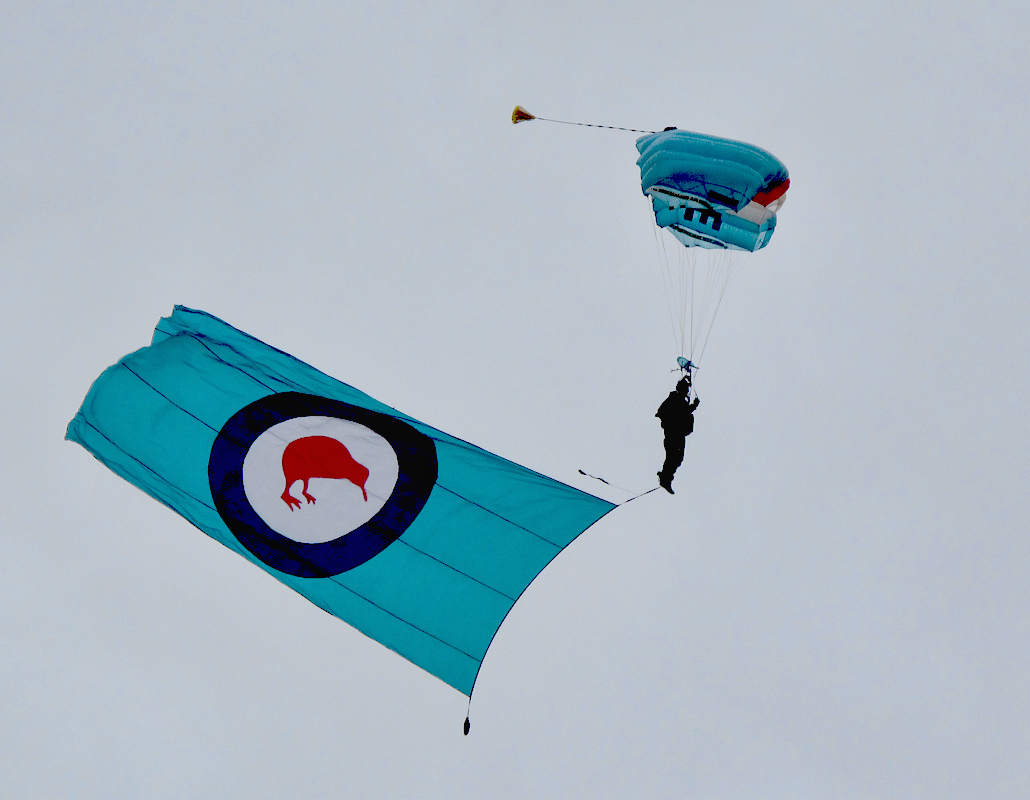 A member of the RNZAF Parachute Training and Support Unit displays the air force flag during the air show at Whenuapai on the 21st of March 2009. Photo taken by Greenkeeper.